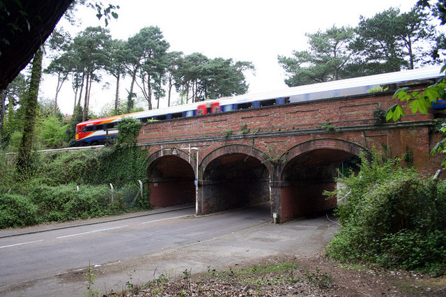 Railway Bridge near Meyrick Park